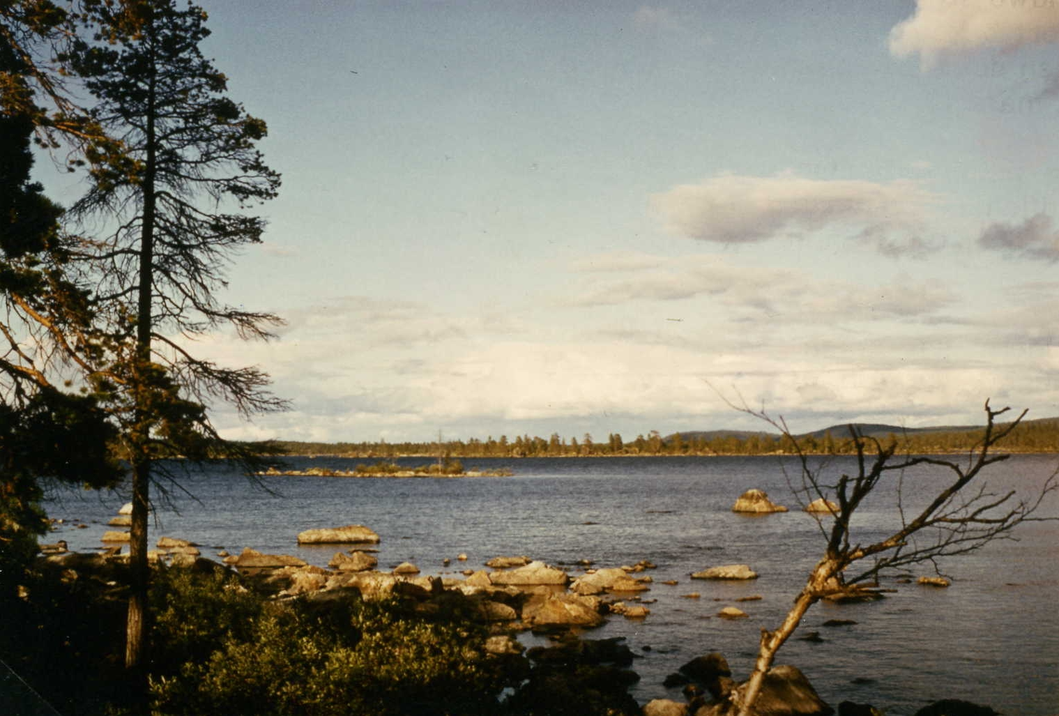 Lake Inari in Inari, Finland.